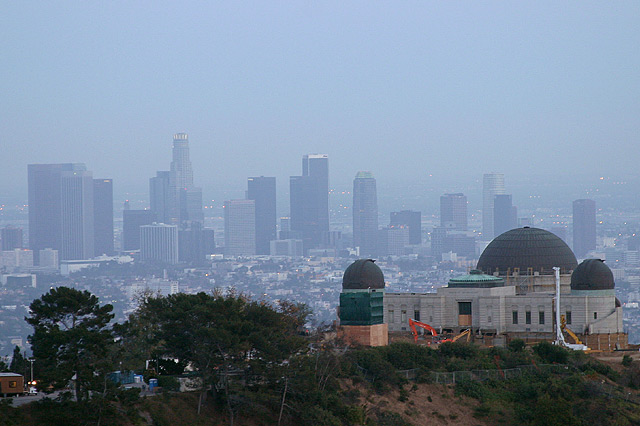 Griffith Observatory.